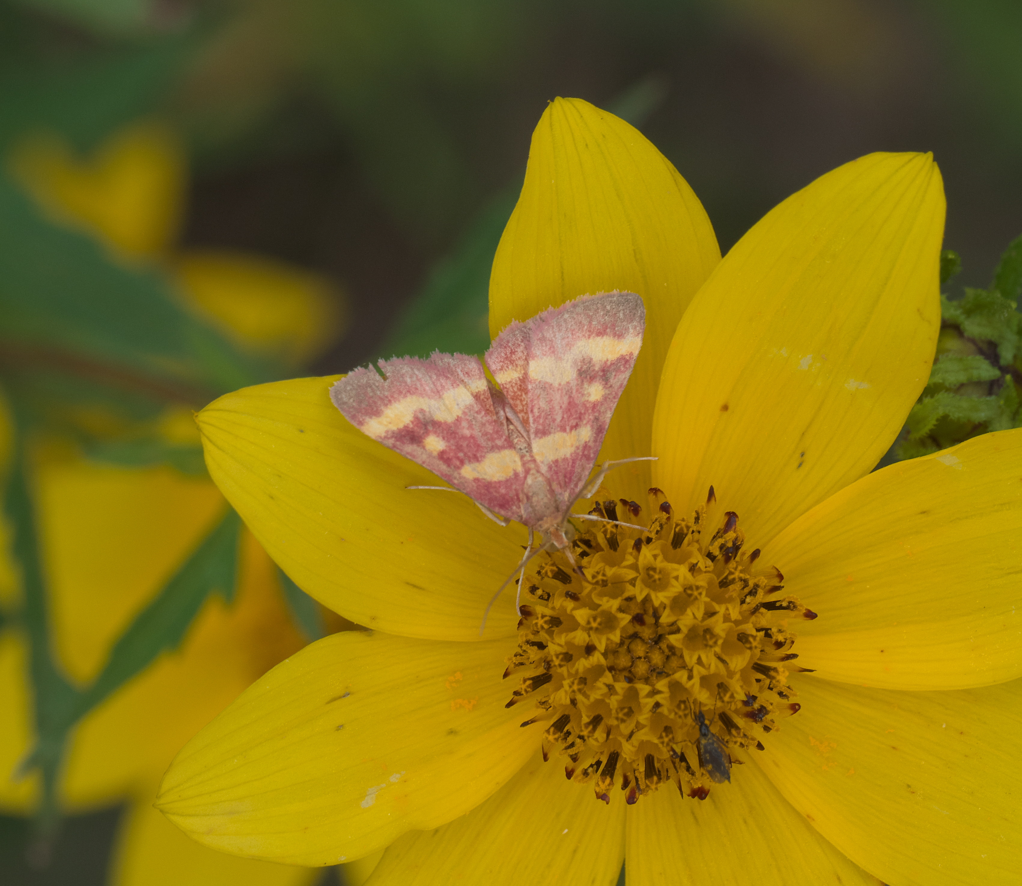 Pyrausta tyralis, coffee-loving pyrausta moth, ID Confidence: 88